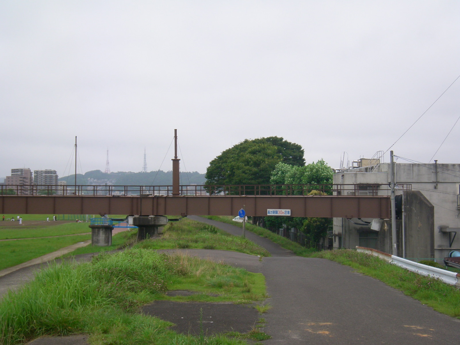 Main Sewer Pipe Line Bridge for Natori River's Left Bank (Natori-gawa Sagan Kansen Gesuikan-kyō). A bridge over the Hirose River (not Natori). From the bank of Hirose River. Wakabayashi, Wakabayashi word, Sendai, Miyagi prefecture, Japan.